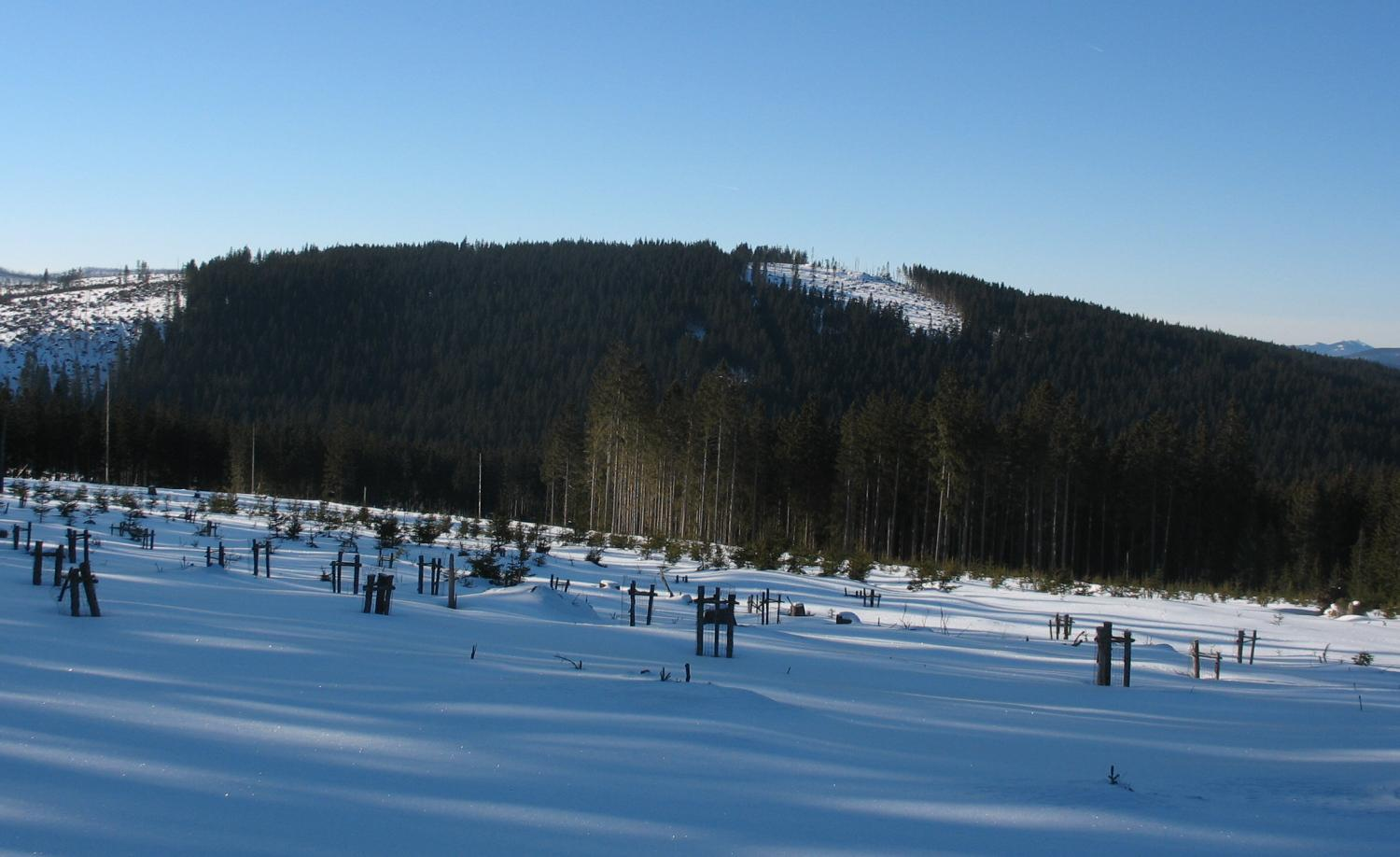 Mountain Černá hora in the Šumava Mts. in Czech republic